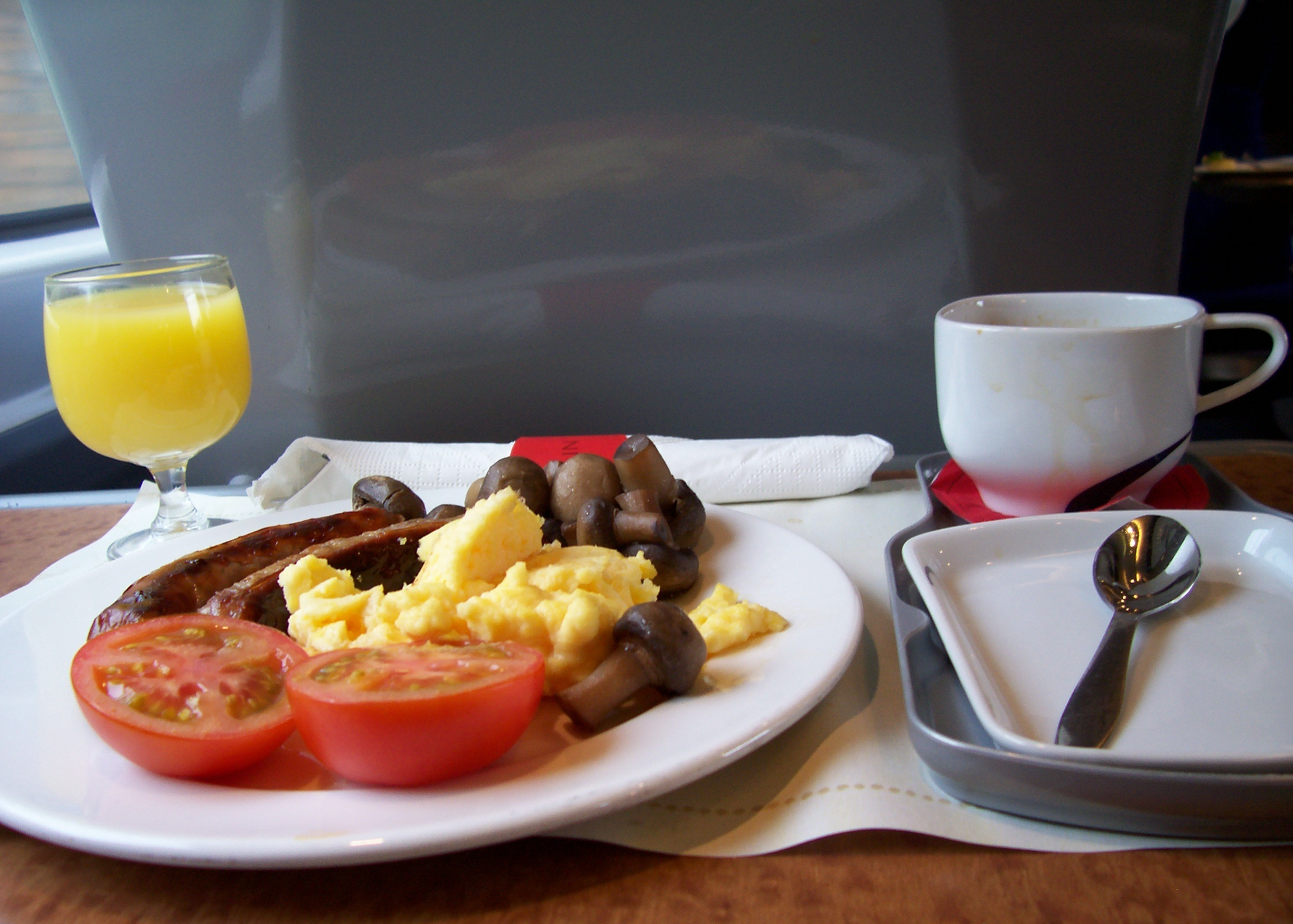 The complimentary Great British Breakfast as served to passengers in First Class on morning services before 11:00.